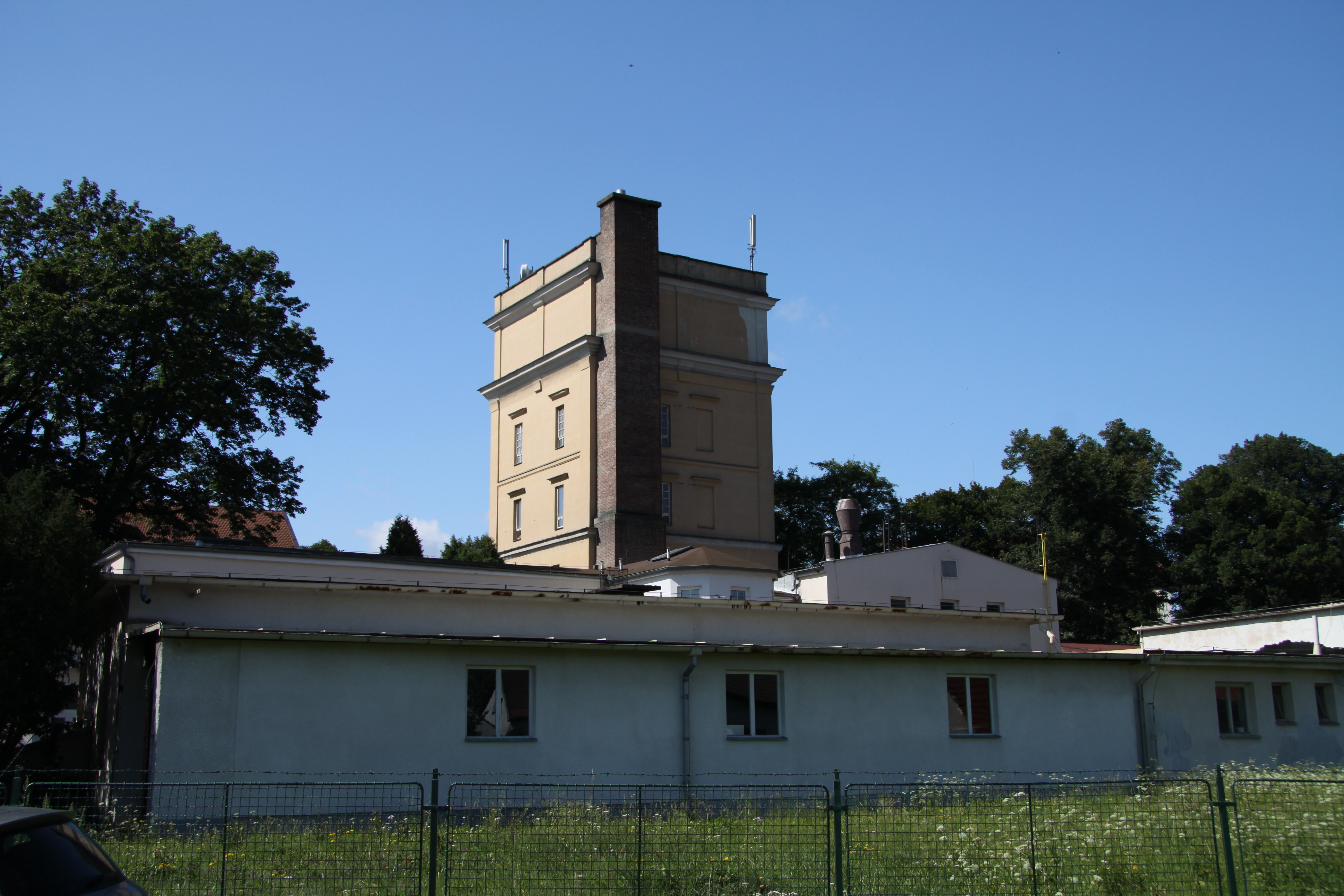 Opařany village in Tábor District, Czech Republic